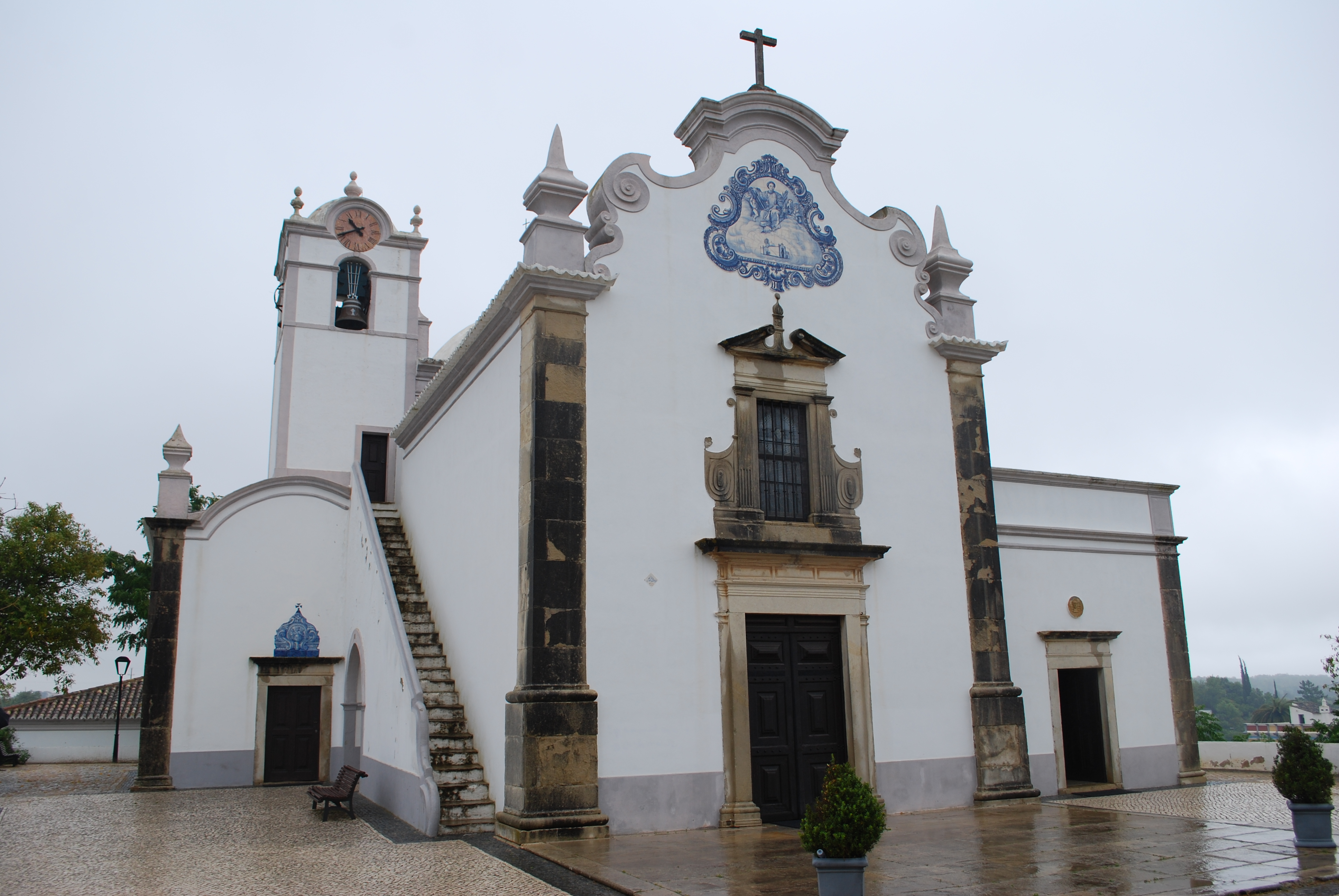 This file was uploaded for Wiki Loves Monuments in Portugal with the unique identifier 72985.